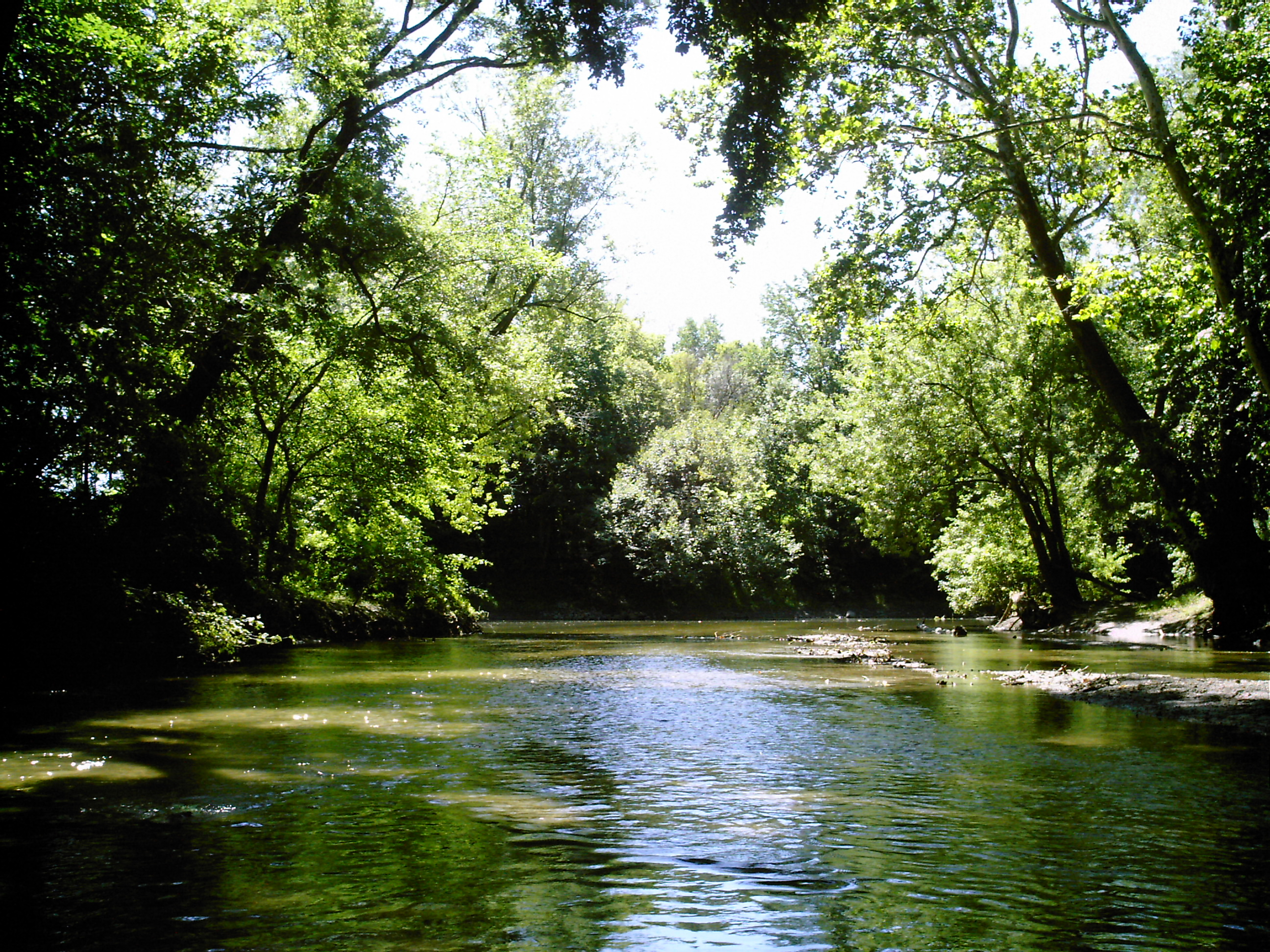 Cedar Creek near the confluence with the St. Joseph River. Picture taken on August 12, 2006